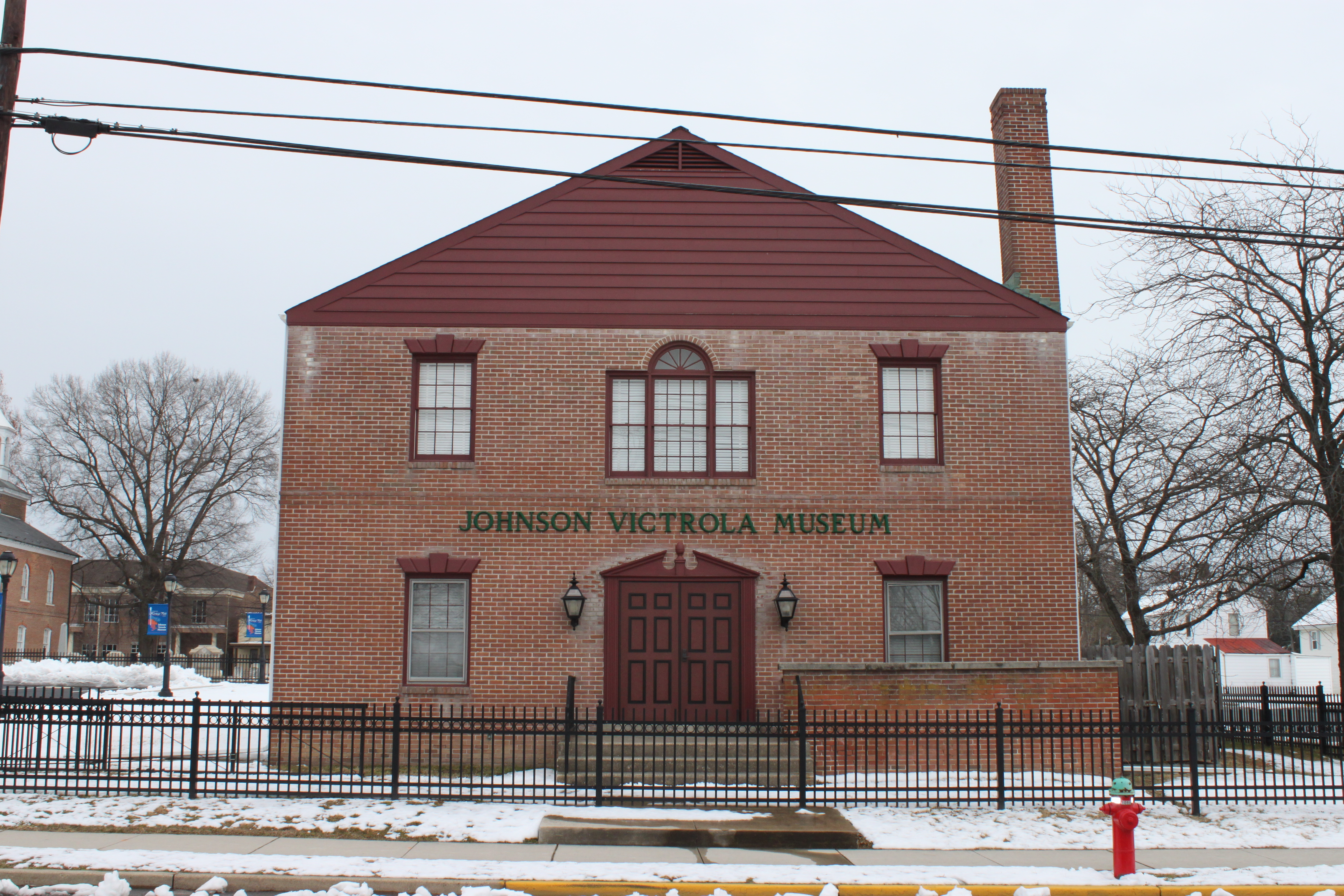 Johnson Victrola Museum Dover Delaware, National Register of Historic Places listings in Kent County, Delaware